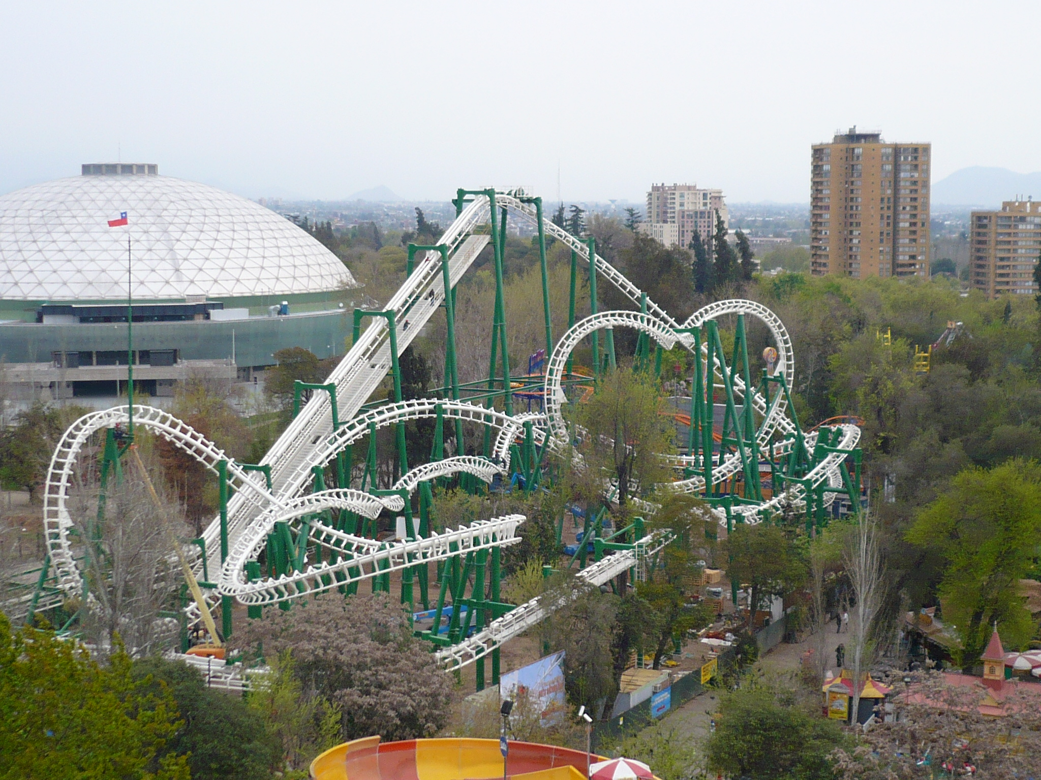 slc lista